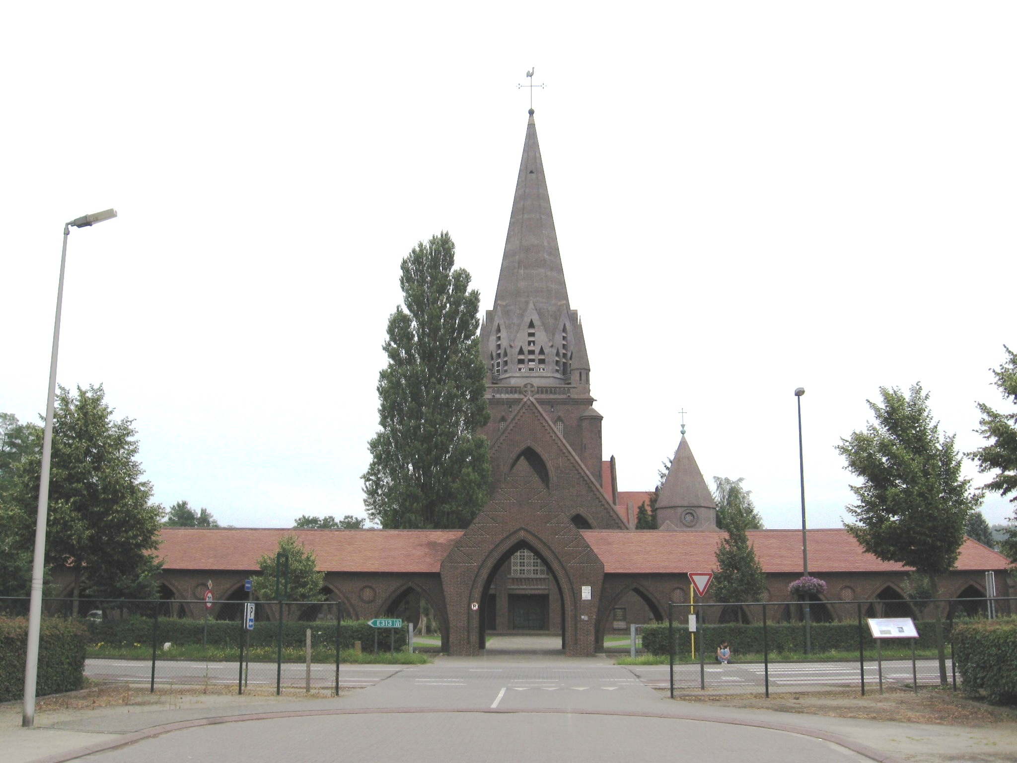 The "mining cathedral" of Saint Theodardus in Beringen-Mijn, Limburg, Belgium